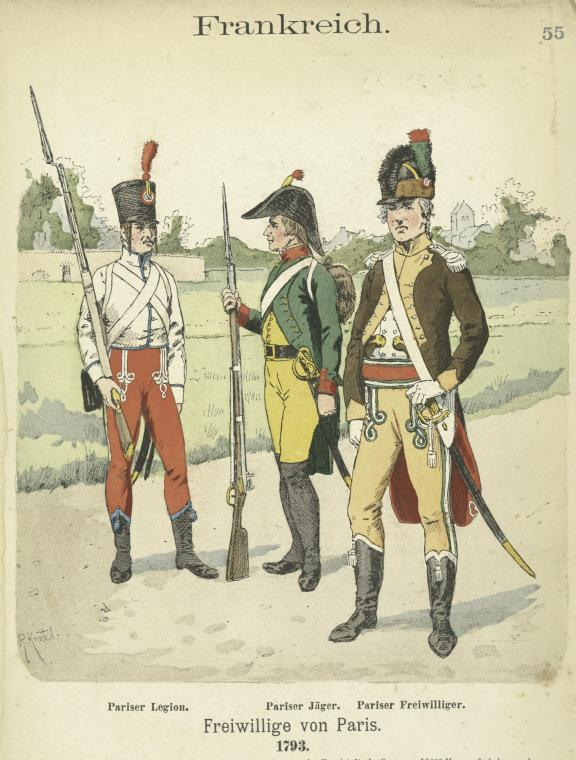 French revolutionaries of Paris, 1793